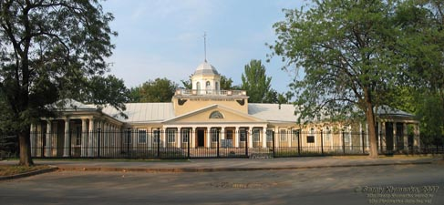 Museum of shipbuilding and fleet in Mykolaiv